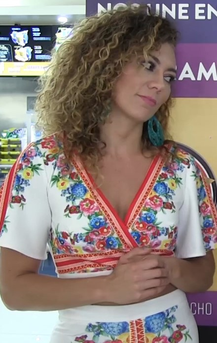 Colombian actrees Andrea Guzmán.